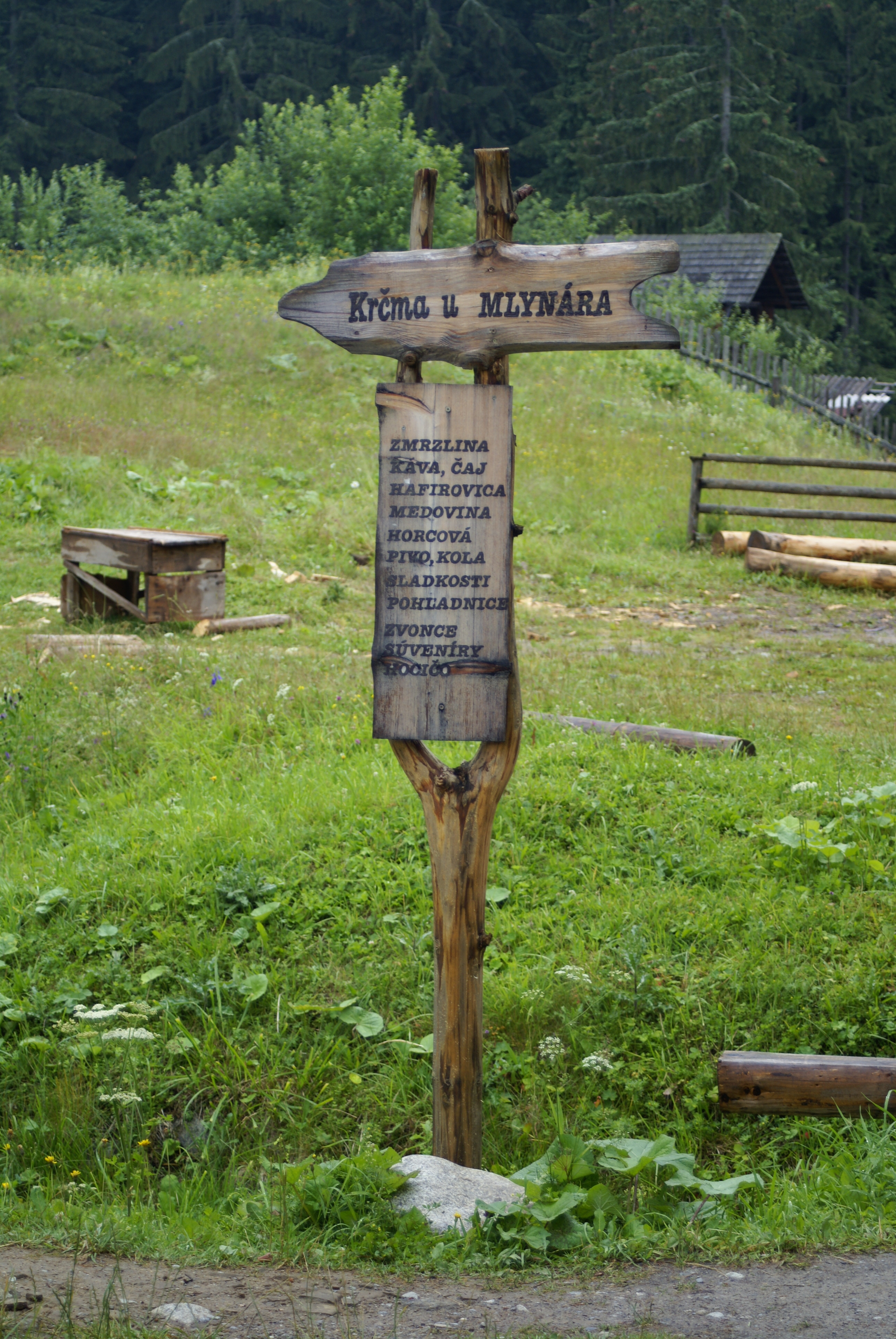 Open air museum of typical slovakian old Orava village, Zuberec, West Tatras, Slovak Republic